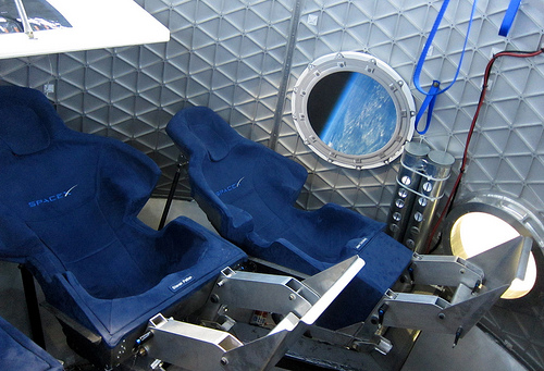 This is the mock-up being used for the CCDev crew accommodations milestones.